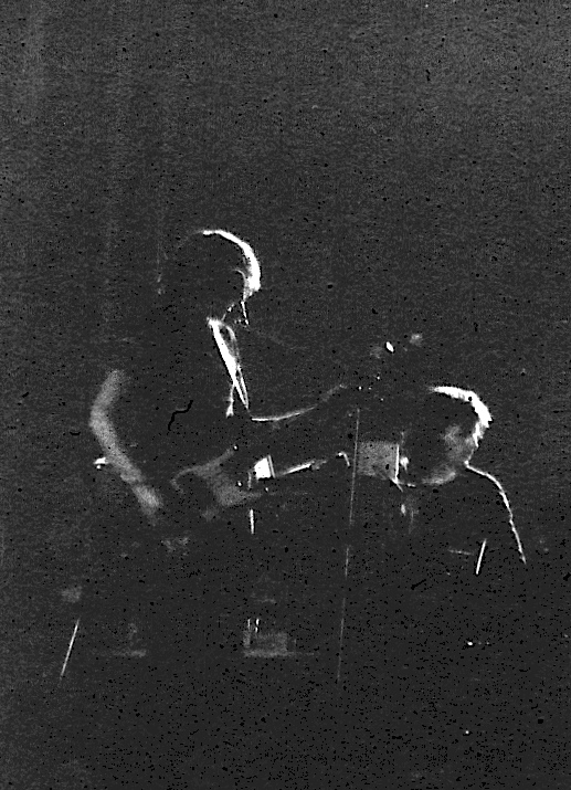 Pink Floyd: Roger Waters, Richard Wright, Cow Palace, 1975